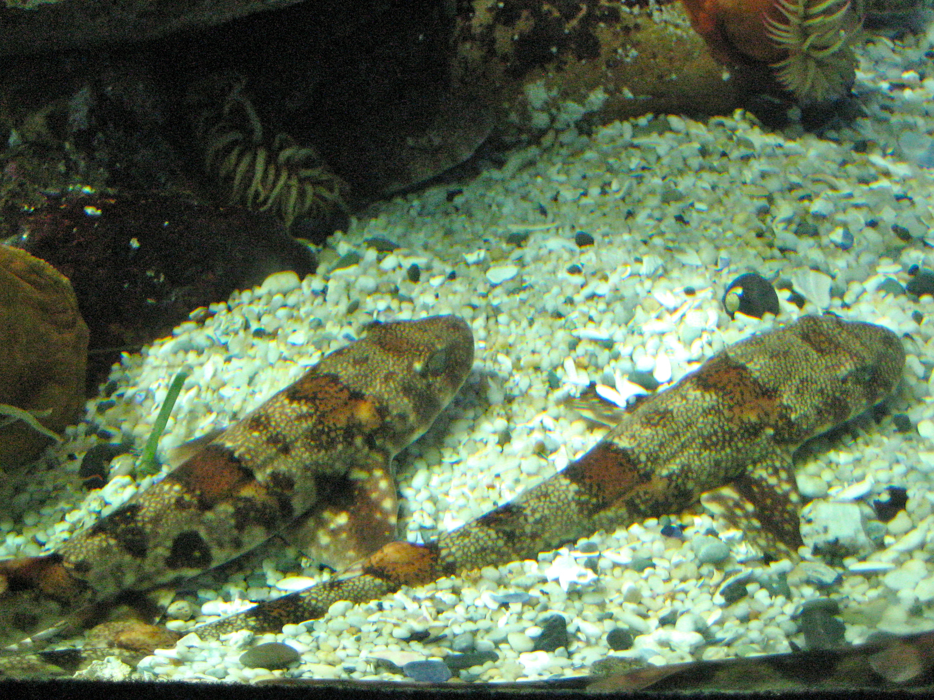 Puffadder shysharks (Haploblepharus edwardsii) at the Cape Town Aquarium